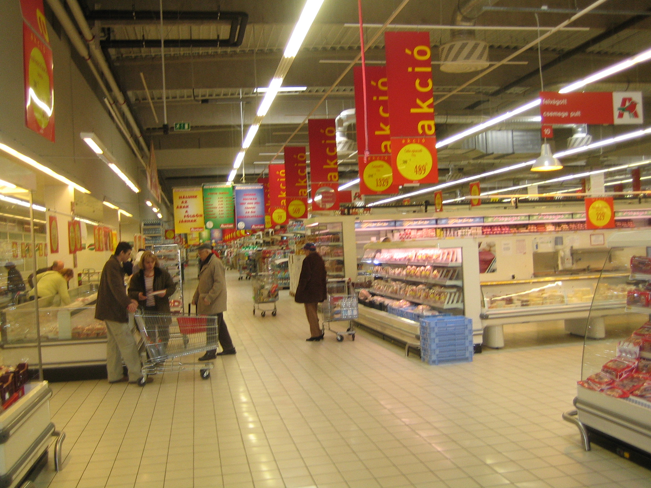 Auchan super market in Budapest, Hungary